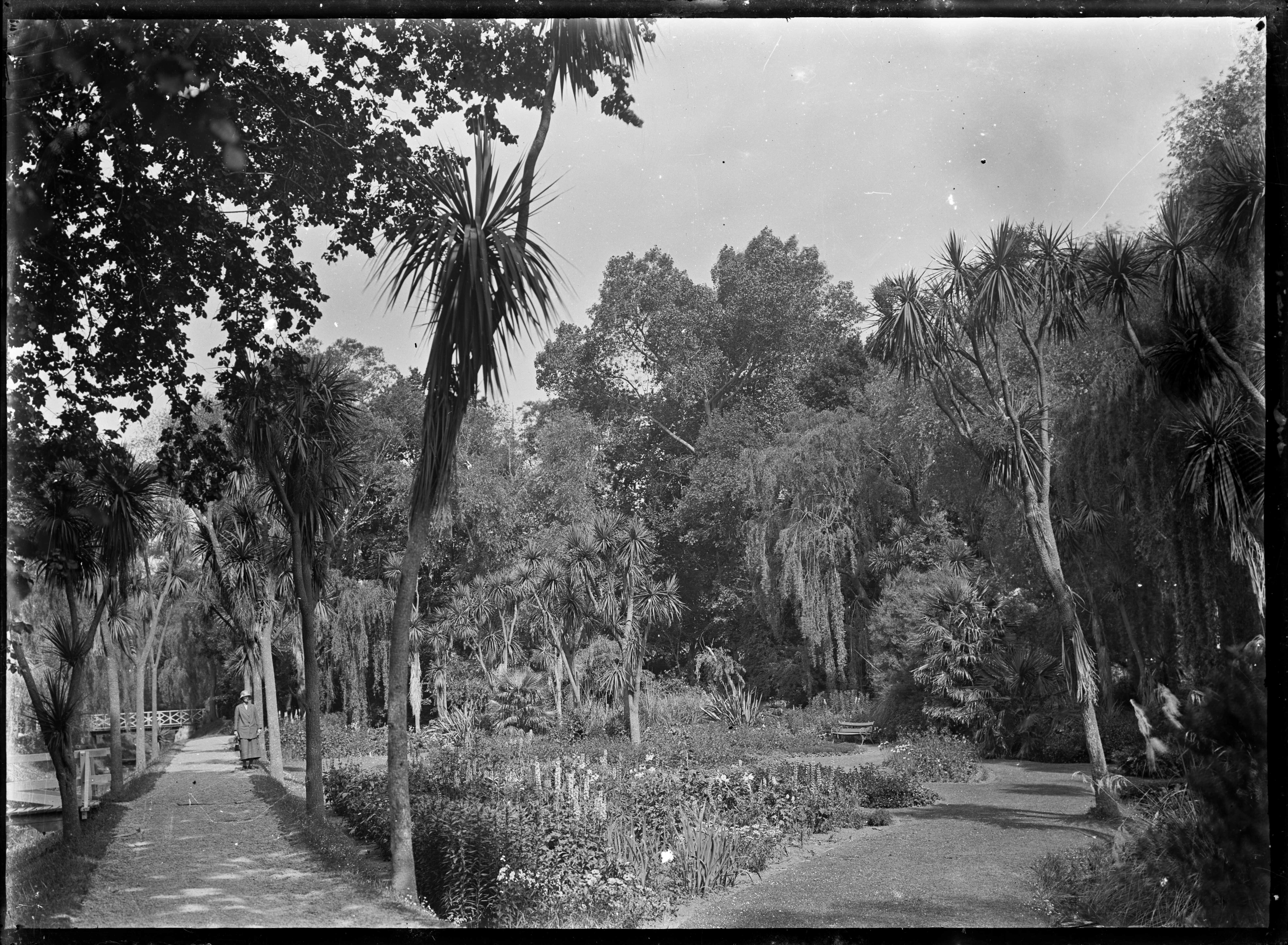 View of the Oamaru Gardens, showing paths with many cabbage trees amongst the planting. A woman, probably the photographer's wife Laura Godber, is standing on the left-hand path. Photograph taken by Albert Percy Godber circa 1925.